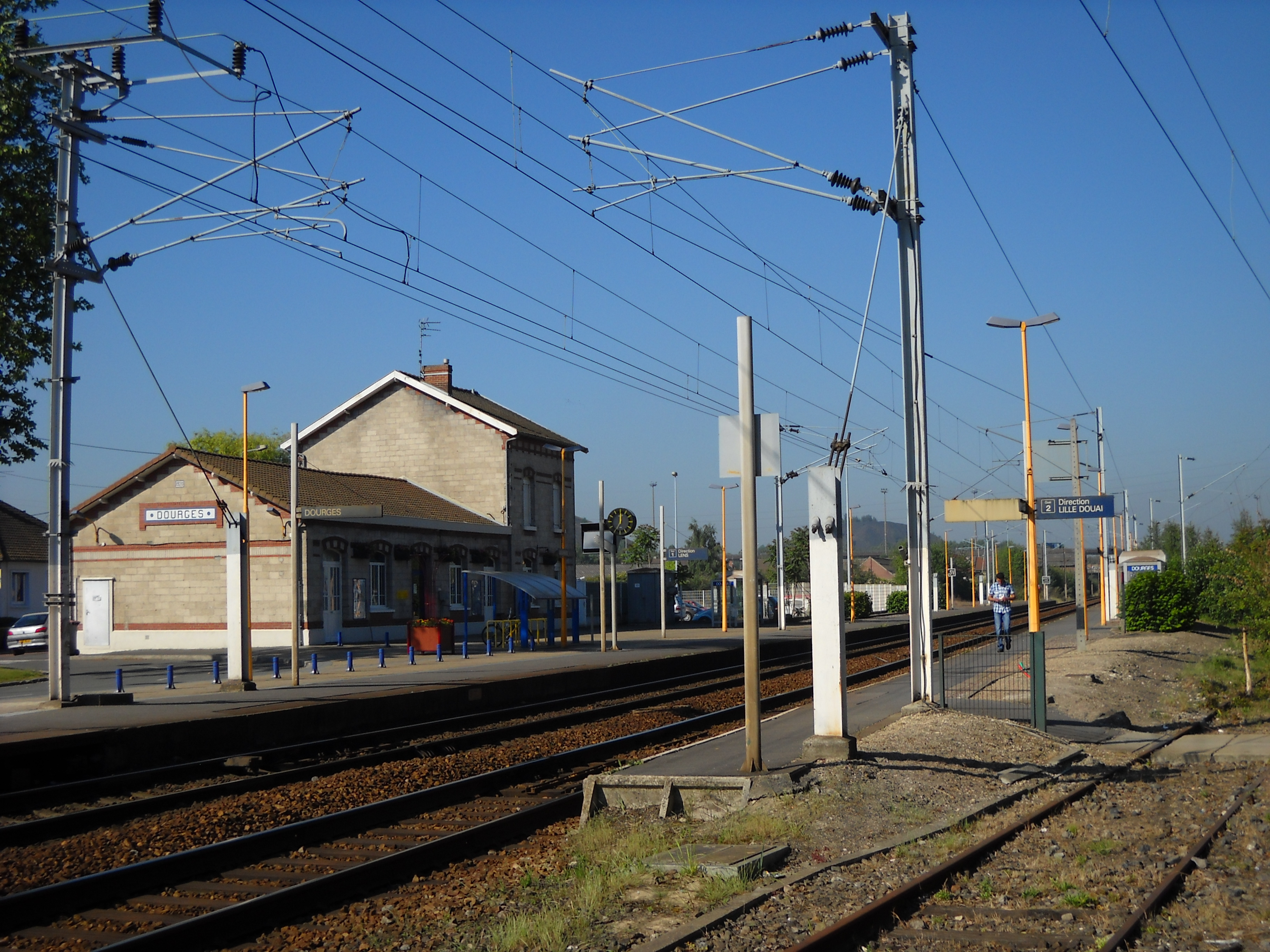 The train station of Dourges, Pas-de-Calais, France.